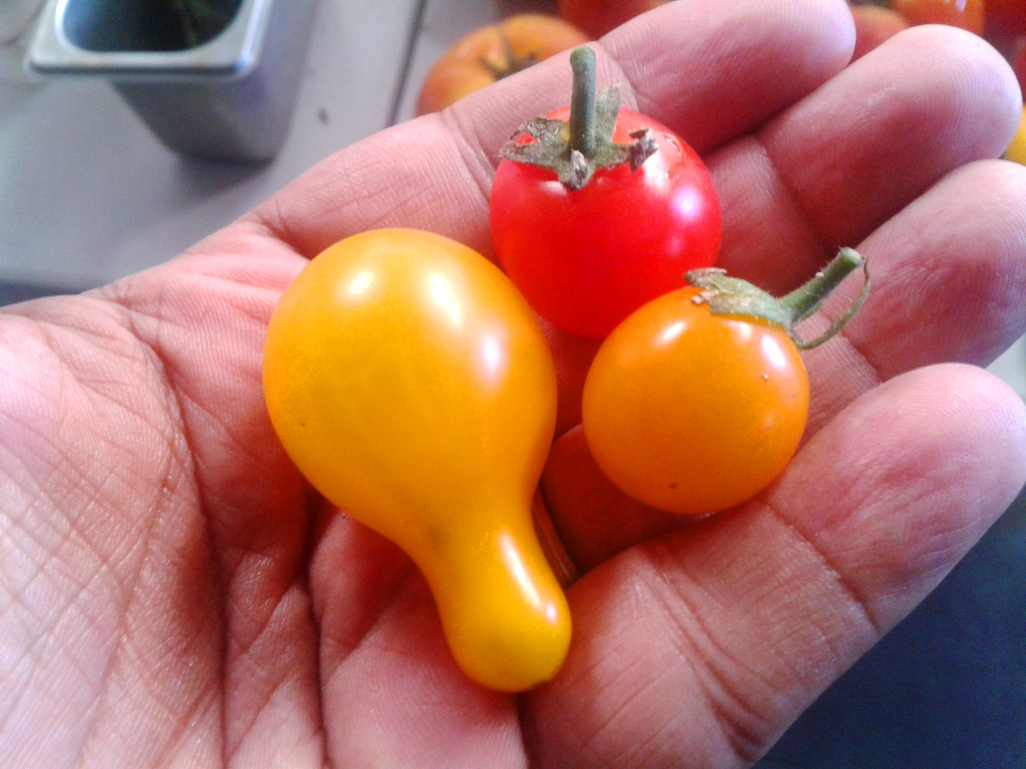 Types of cherry tomatoes